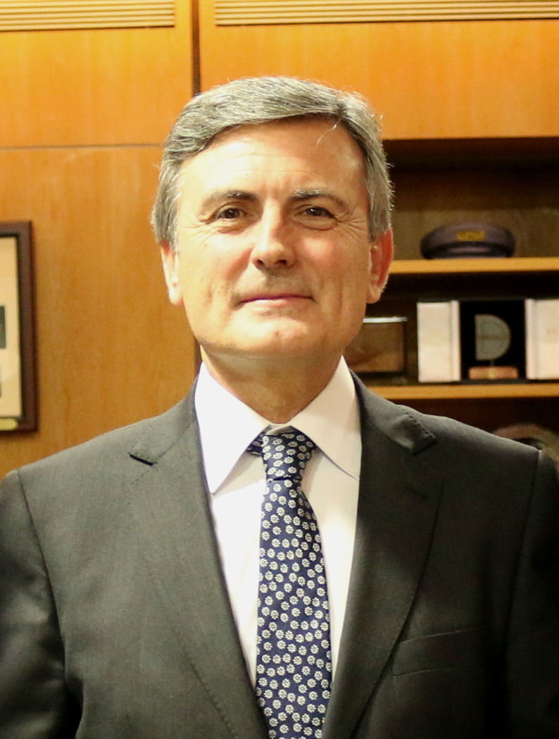 IMO Secretary-General Kitack Lim receives Mr. Pedro Saura García, Secretary of State of Public Works, Transport and Housing of Spain and HE Mr. Carlos Bastarreche Sagües, Ambassador Extraordinary and Plenipotentiary, Perm. Rep of Spain to IMO, London (20/11/2018).